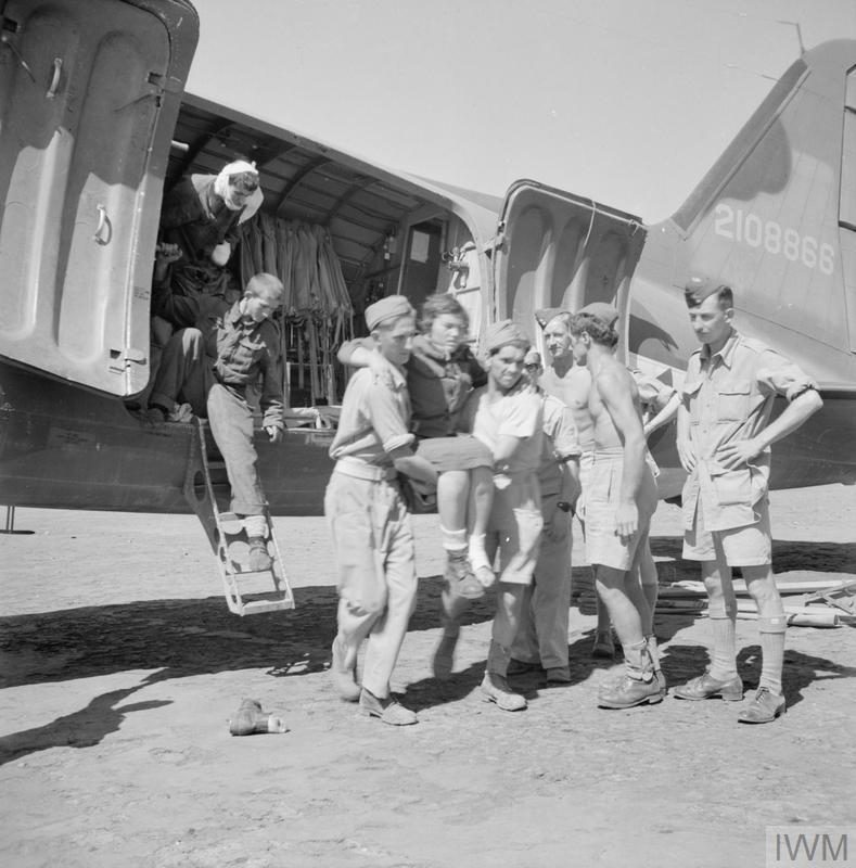 THE ROYAL AIR FORCE IN YUGOSLAVIA, 1944-1945 (CNA 3095) The RAF evacuating wounded partisans from Yugoslavia. A wounded female partisan being carried from one of the transport aircraft on arrival in Italy, 1944. Copyright: � IWM. Original